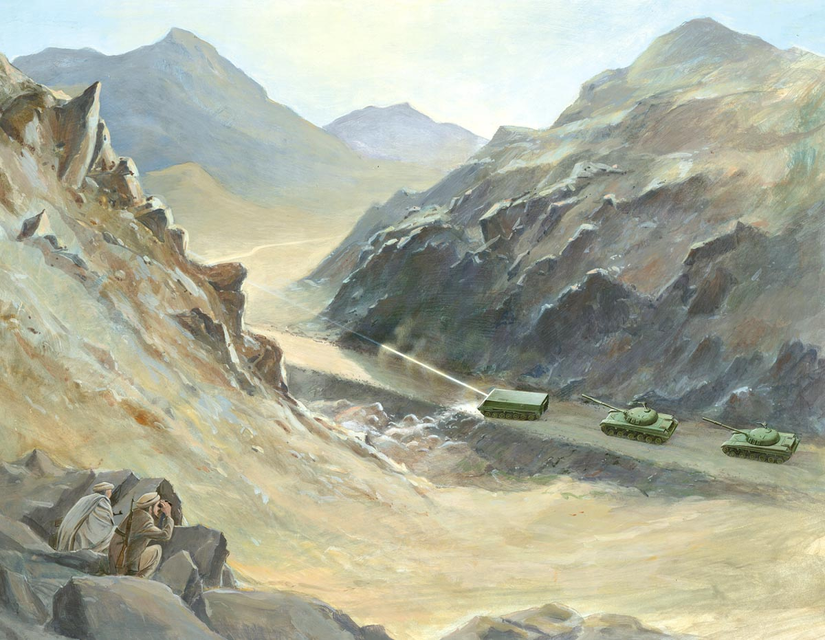 Soviet Mobile Laser in Afghanistan by Edward L. Cooper, 1985: The Soviets continued a large, well-funded program to develop tactical laser weapons in the 1980s. There were reports that the USSR employed mobile laser platforms in Afghanistan against personnel, unprotected targets, and sensors.